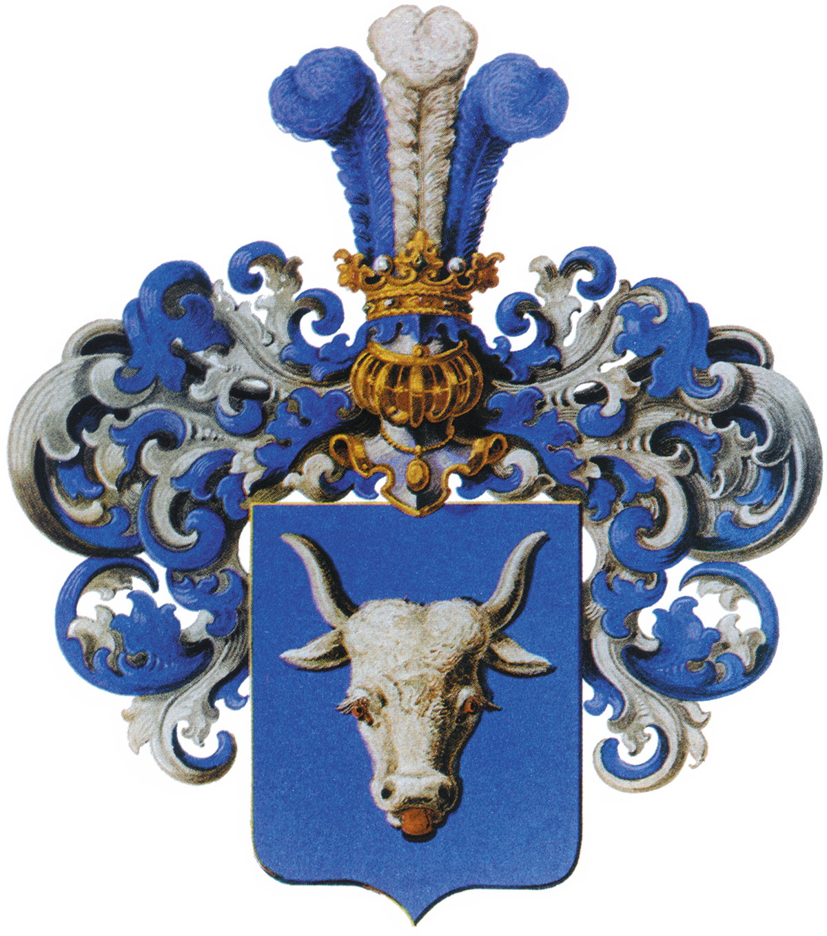 Coat of arms for the von Kieseritzky family